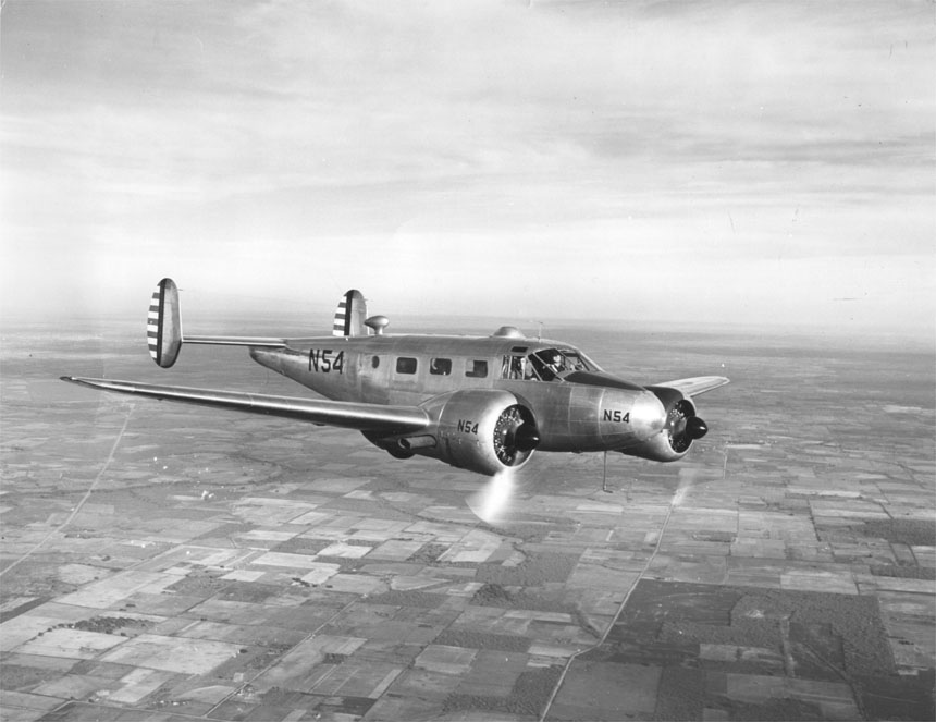 Description: In this flying classroom, a Beechcraft AT-7 advanced training plane, Air Corps student navigators of Kelly Field, Texas, learn one of the top jobs in air warfare---charting the course of America's giant bombers in flight. Besides pilot and navigator instructor, these twin-engined craft carry three students, each of whom spends 90 hours in day and night navigation flights over wide areas of the Southwest and the Gulf of Mexico. Note "blister" above cabin which has porthole in revolving turret to permit readings of sun and stars.